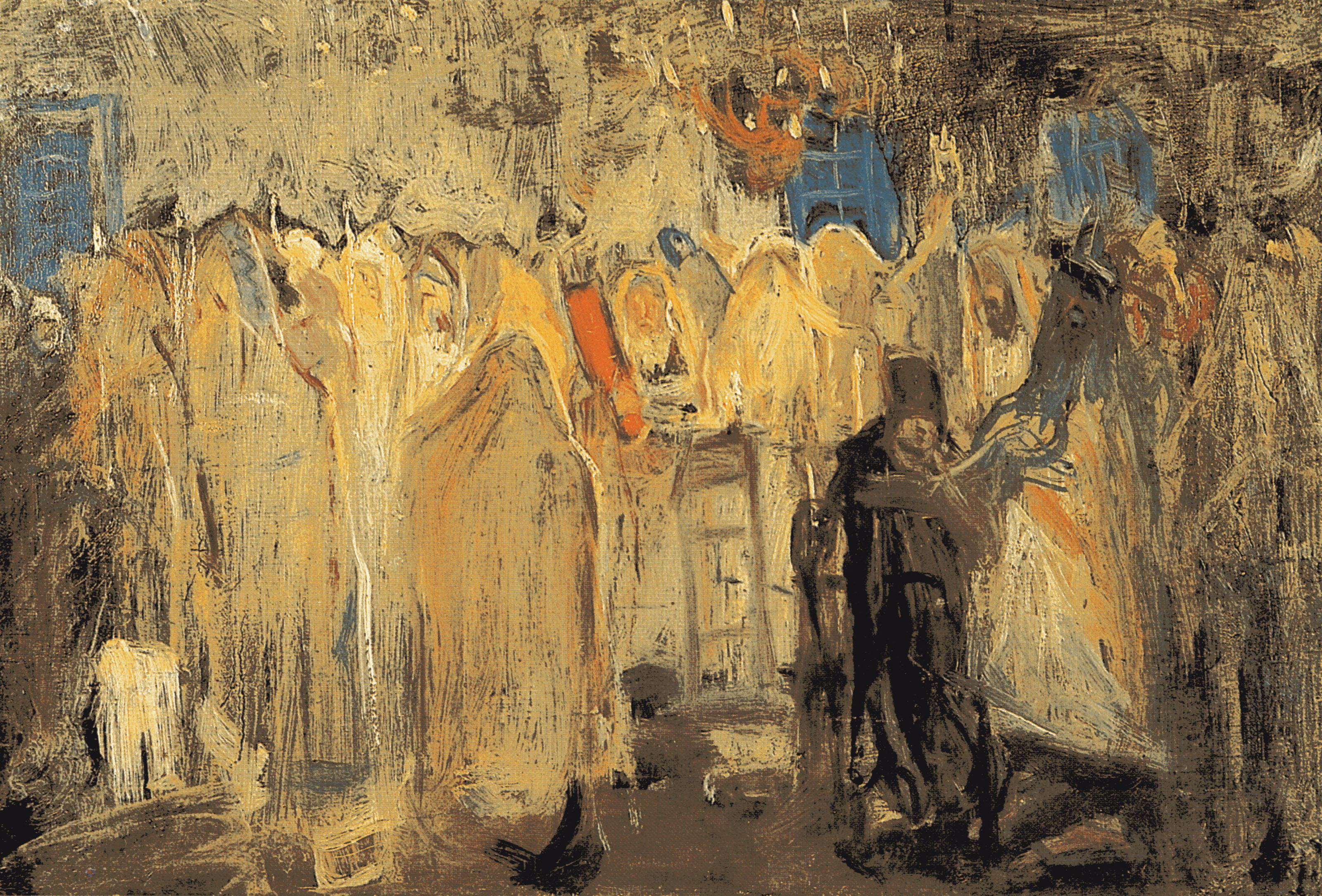 Artur Markowicz: The Prayer